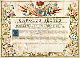 Proclamation of the Austrian governor of the State of the Presidi (also known as the Presidios or theTuscan Presidios) issued in the name of Emperor Charles VI. The Presidi were under Austrian dominion from 1707 to 1737.